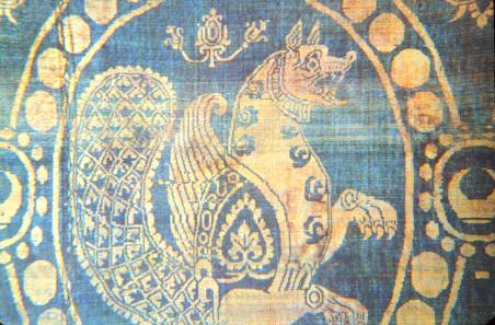 Simurgh on a Sassanid era textile